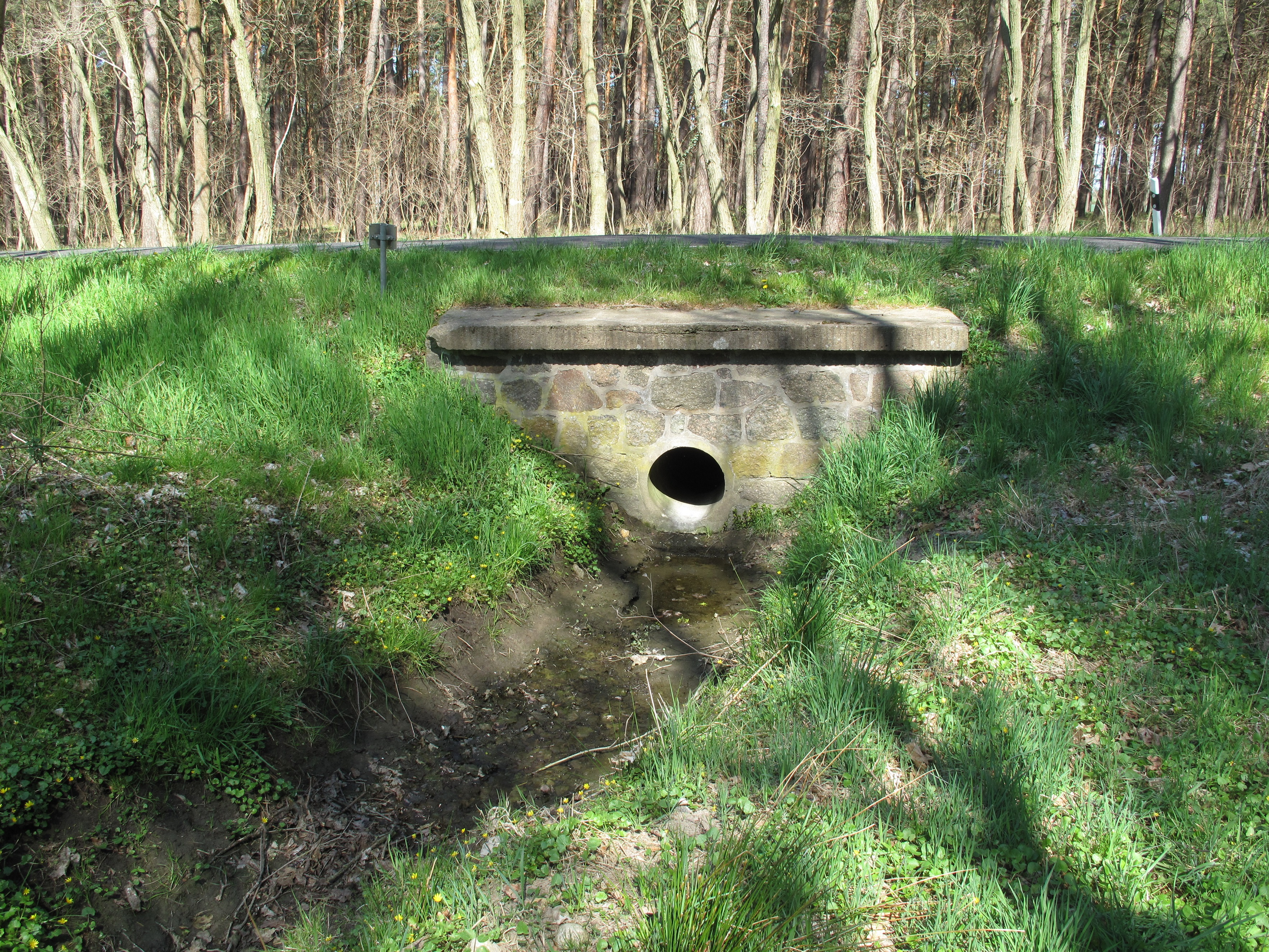 Pipe of the Schwenowseegraben (stream) under the Landesstraße 42 in the north of the Reichardtsluch. The Reichardtsluch (other spellings: Reichardsluch, Reichards-Luch) is a Luch in Limsdorf, a part (german: Ortsteil) of the town Storkow in the District Oder-Spree, Brandenburg, Germany. It is situated in the Dahme-Heideseen Nature Park. The Luch is a part of the Natura 2000-area Schwenower Forst Ergänzung (Schwenower Forst supplement), which belongs to the Natura 2000-area und protected area Naturschutzgebiet Schwenower Forst. It is protected for its amphibian conservation. The Reichardtsluch is flown by the Schwenowseegraben.